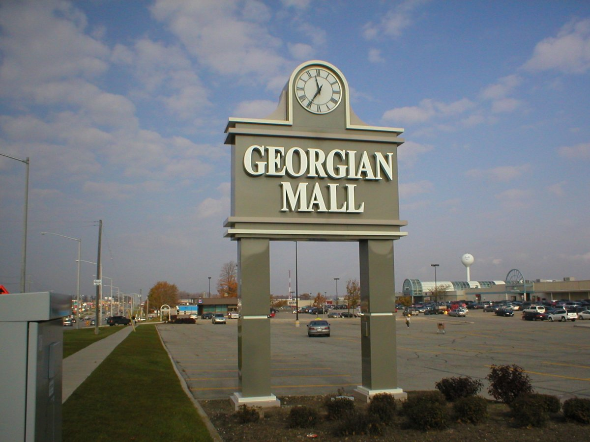 The Georgian Mall in Barrie, Ontario, Canada, prior to its recent renovation. This sign is at the south end of the shopping complex.